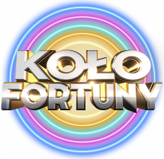 Logo of Polish version of game show Wheel of Fortune - "Koło Fortuny" (2017 - ).